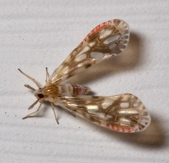 Anotia bonnetii. Perry County, Ohio, USA. 3+mm, head to abdomen.